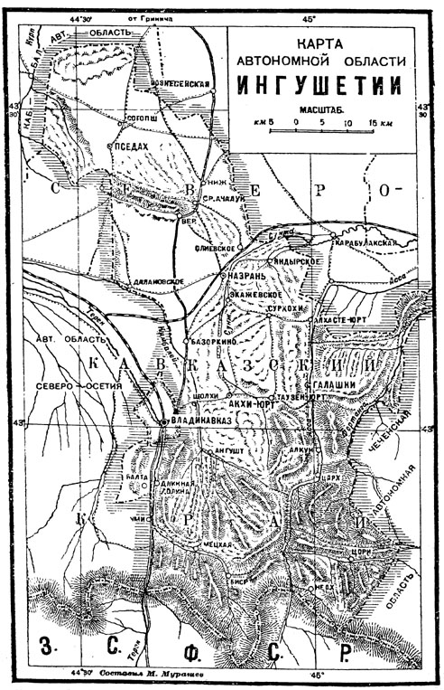 Map of Ingush AO